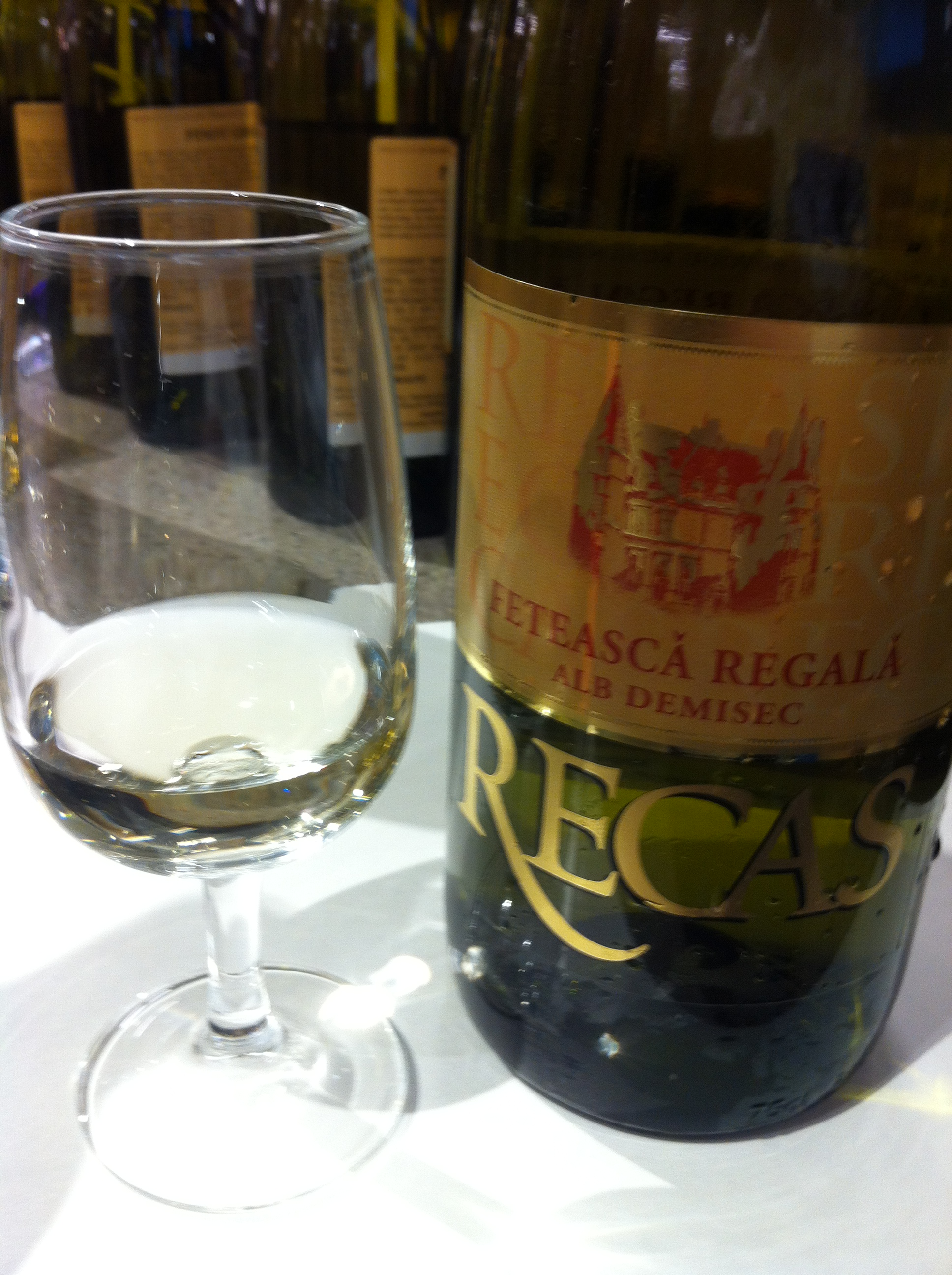 White Romanian wine from Transylvania made from the Feteasca Regala grape